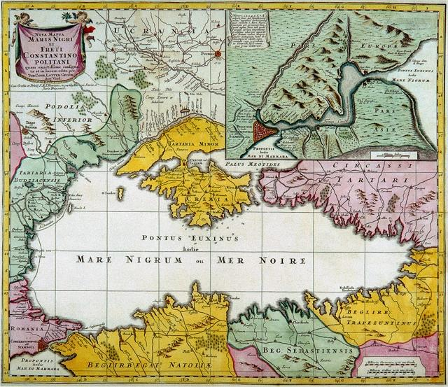 It represents The Black Sea and the adjacent areas; in a separate cartouche, is presented Istanbul's layout (Stamboul, Constantinople, Byzantium).